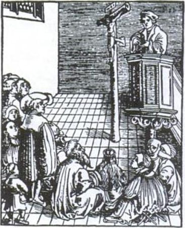 Das Vaterunser (The Lord's Prayer) by the German artist Lucas Cranach the Elder.